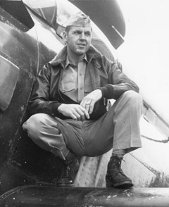 William Morris Meredith, Jr. as pilot on the wing of his aircraft